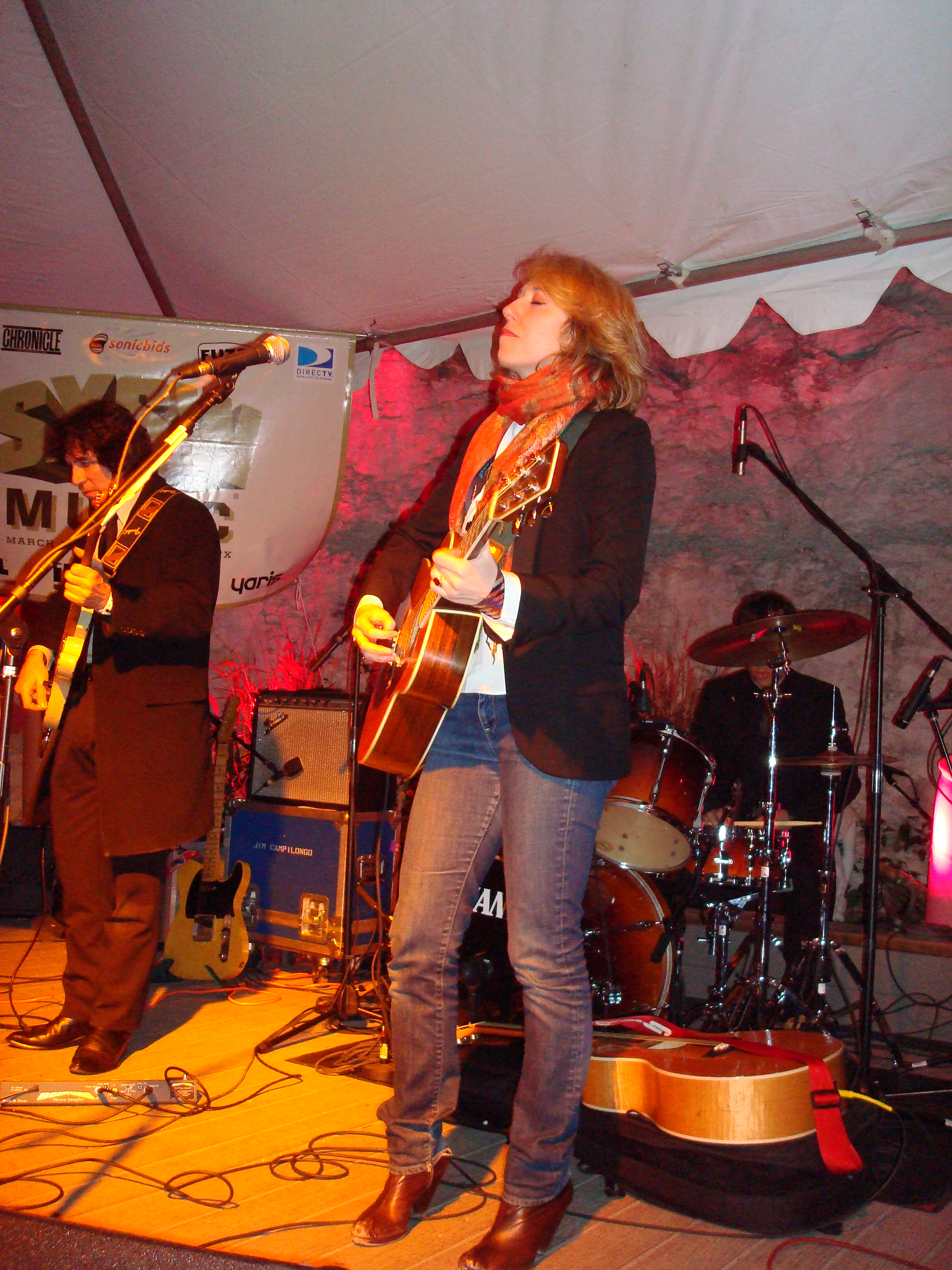 Martha Wainwright - South By Southwest 2008 at Club DeVille in Austin, Tx